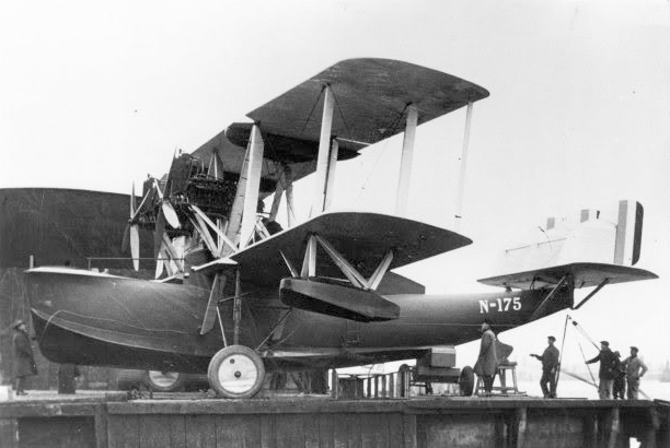 The Supermarine Swan (N175) with landing gear.